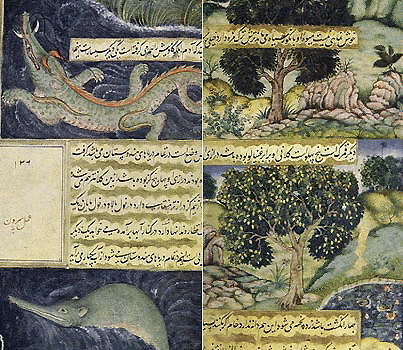 Illustrations from Babur-namah Mughal miniatures, c. 1520